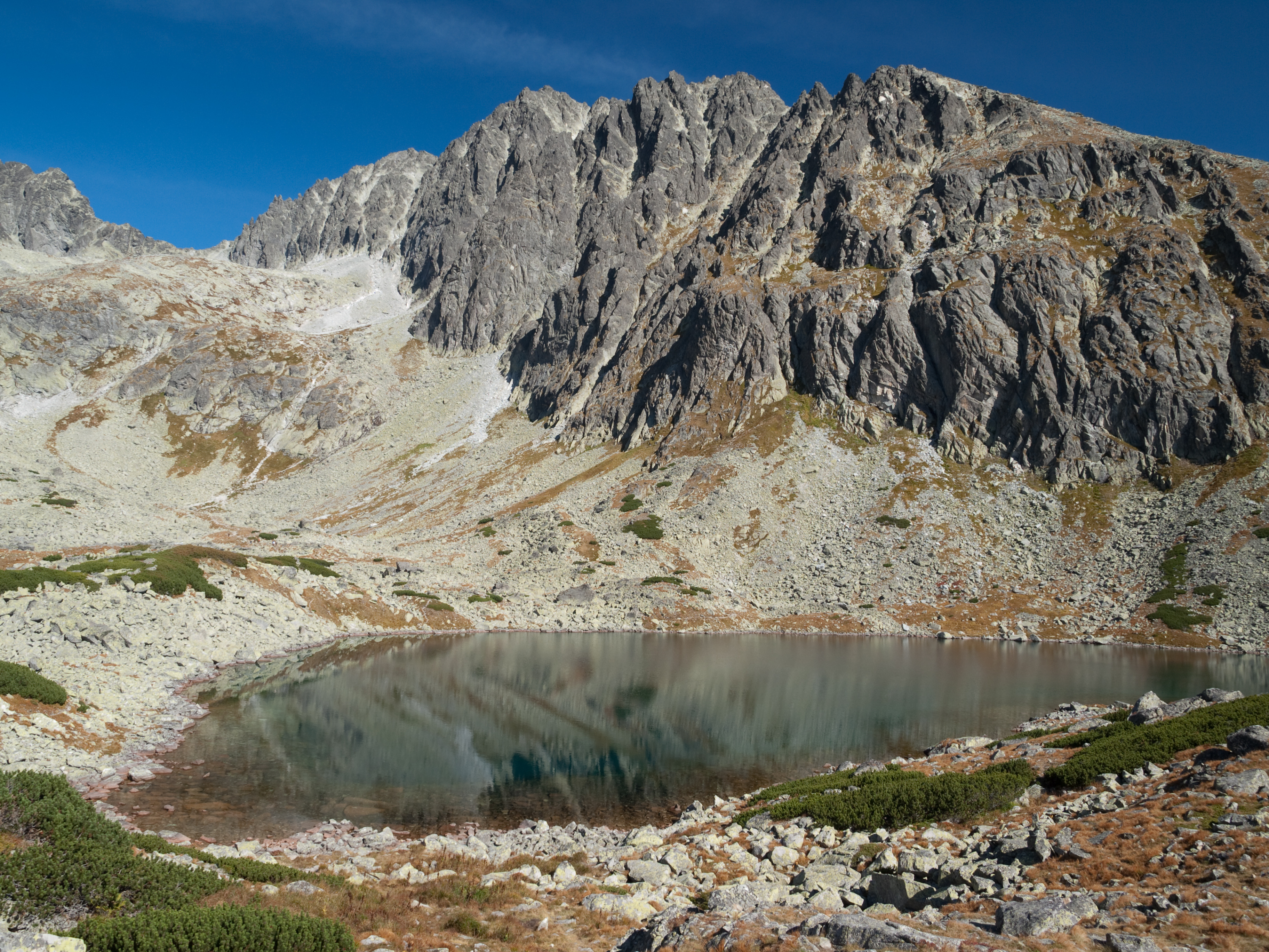 Batizovské pleso and the massif of Gerlachovský štít — in the High Tatra Mountains, Tatra National Park, northern Slovakia.